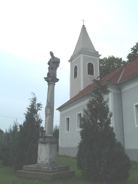 Roman Catholic Church in Söpte, Hungary